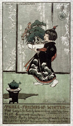 A woodblock print in Japanese style titled Three Friends of Winter (1913); there are copies in the Smithsonian American Art Museum and the Art Institute of Chicago